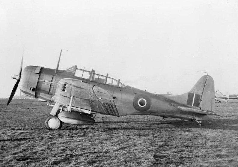 One of nine Douglas SBD-5 Dauntless dive bombers supplied to the United Kingdom in late 1943. Registered as JS997 the plane was named Dauntless Mk.1, but was not used operationally by the Royal Navy.